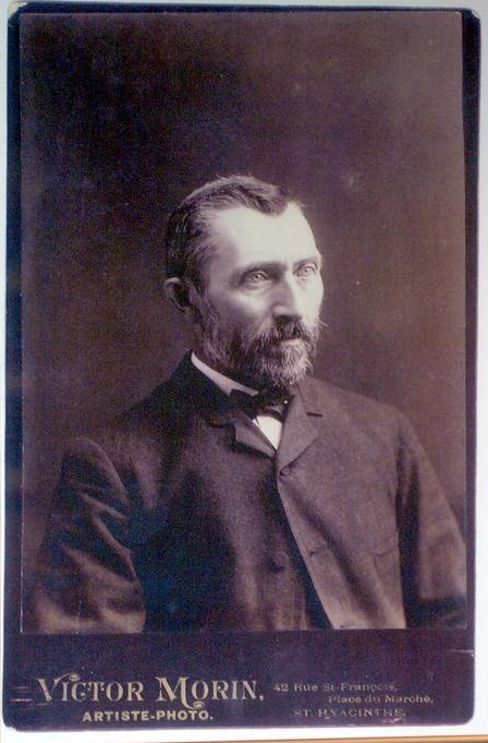 Brussels clergymen circa 1886, with some unlikely claims that this is a portrait of Van Gogh (See [1], [2]),. Discovered in the early 1990s, first exhibited 2004 in Seton Gallery, New Haven.